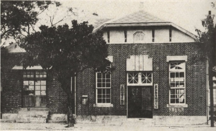 鳥松庄役場